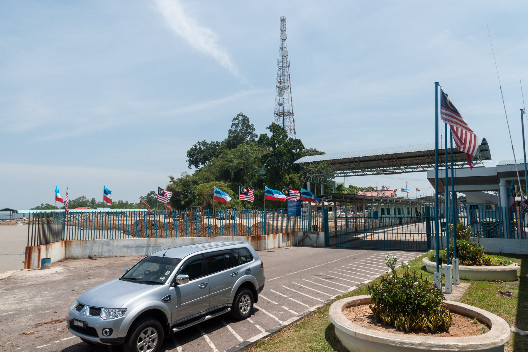 Menumbok, Sabah: Customs at the Menumbok jetty